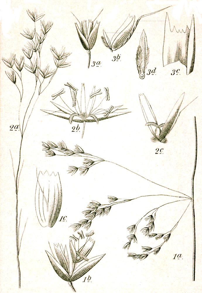 1. Deschampsia cespitosa (L.) P.Beauv. 2. Avenella flexuosa (L.) Drejer, syn. Deschampsia flexuosa (L.) Trin. subsp. flexuosa 3. Deschampsia setacea (Huds.) Hack., syn. Deschampsia discolor (Thuill.) Roem. & Schult. Original Caption 1. Rasen-Schmiele, Deschampsia caespitosa L. 2. Wald-Schmiele, D. flexuosa L. 3. Bunte Schmiele, D. discolor Thuill.